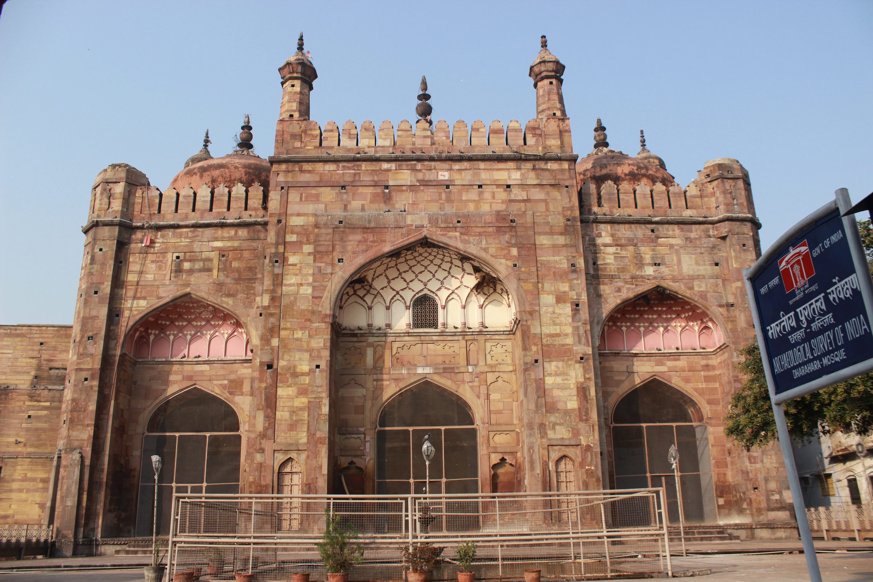 siberian birds in ganga river,varanasi, uttar pradesh, india